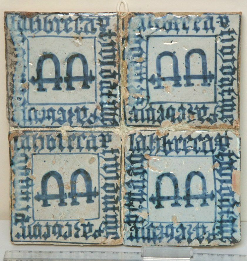 Decorated tiles showing Manises.